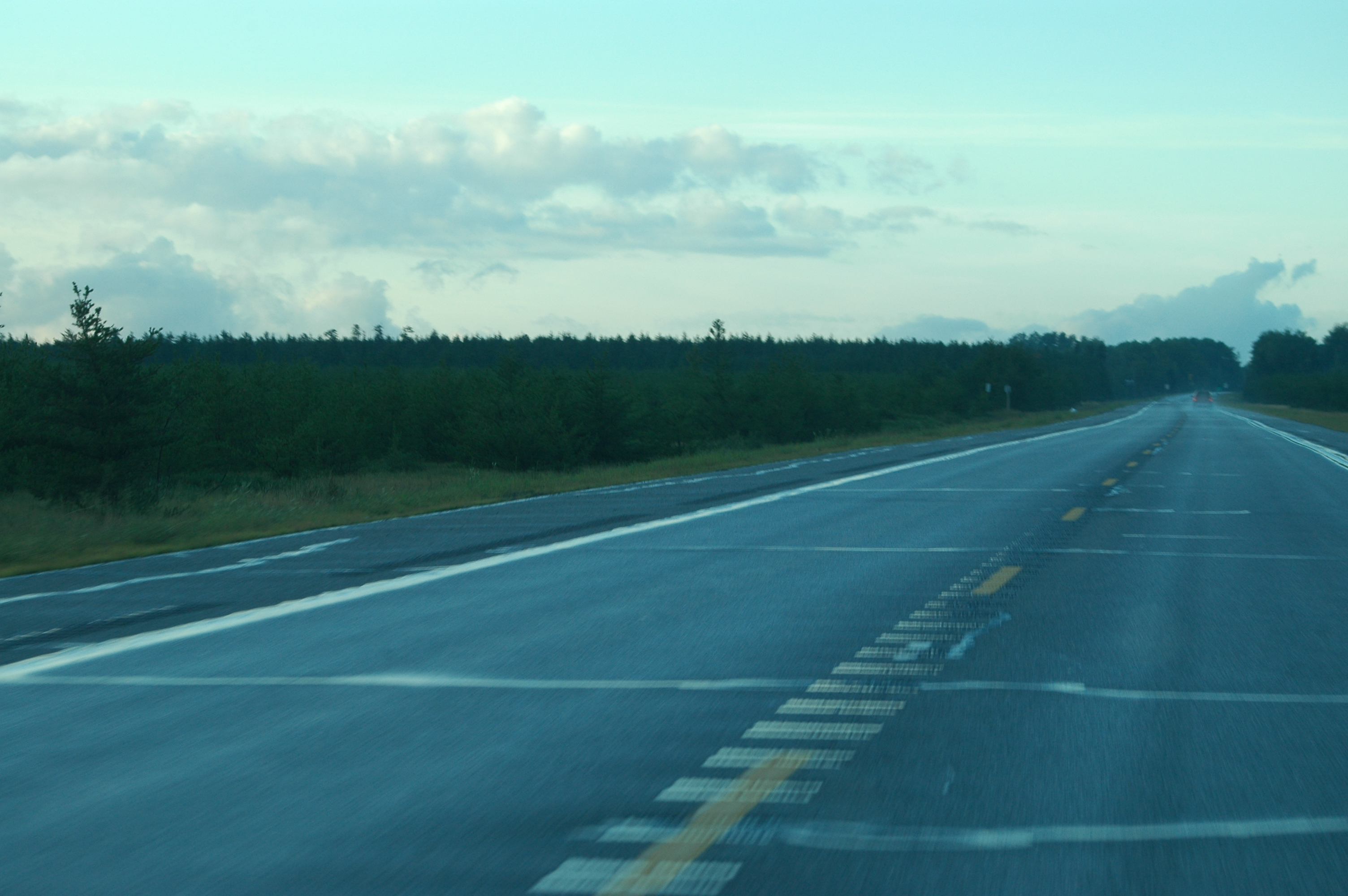 M-553 in the Sands Plains in Sands Township, Michigan